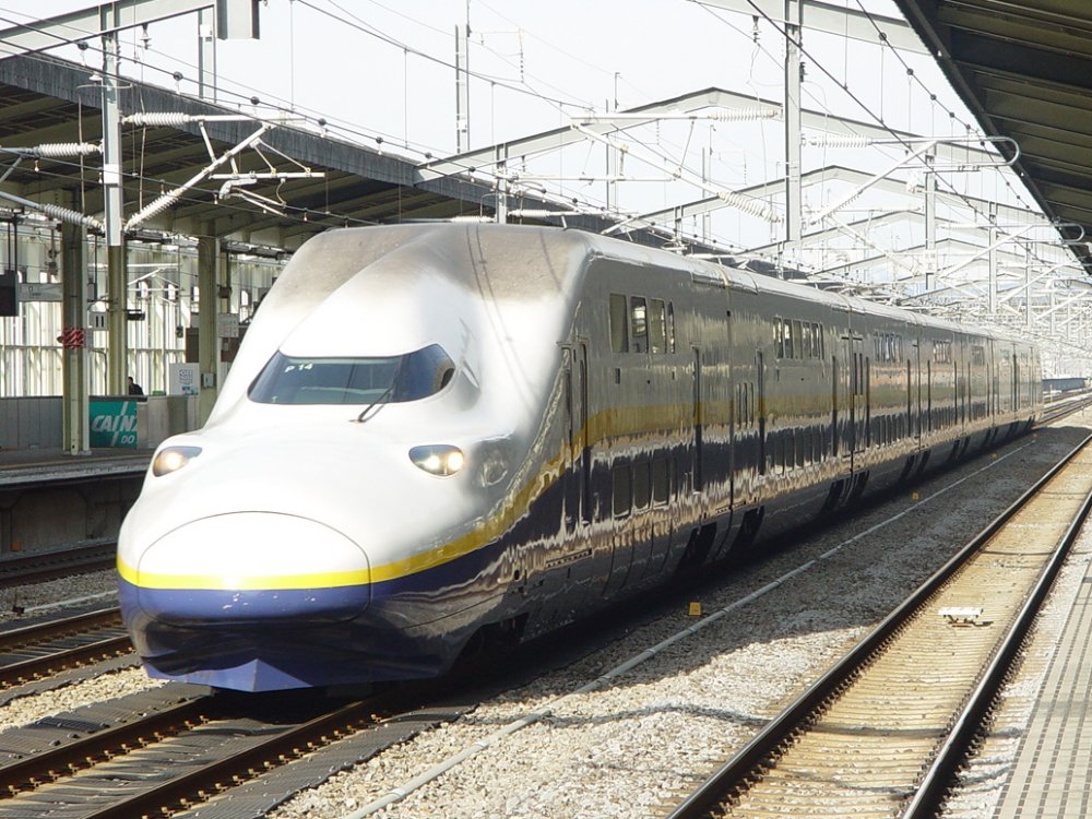 JR East E4 series shinkansen set P14 passing through Takasaki Station on the Max Toki 321 service from Tokyo to Niigata